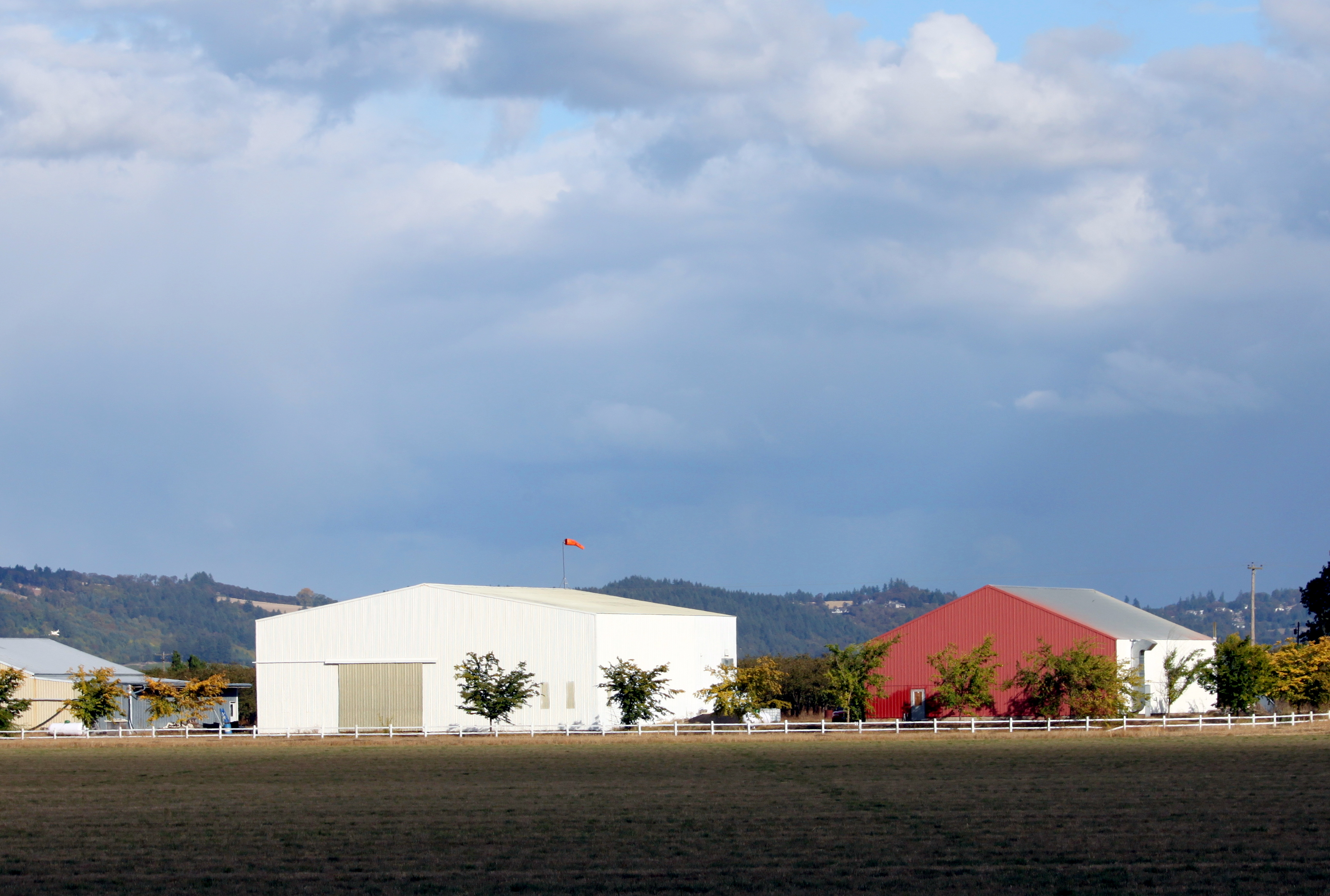 Faust Field hangar near Independence, Oregon.